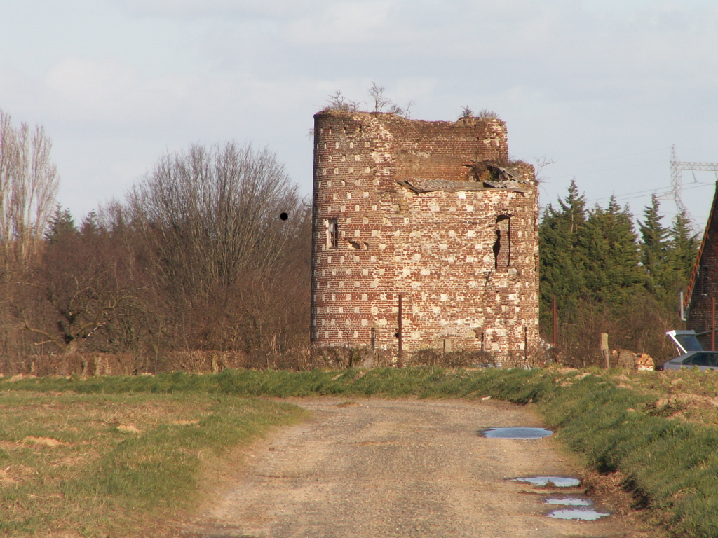 Ruined windmill at Ligny-lès-Aire, Pas-de-Calais